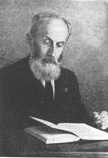 A photo/drawing of Jakob Sprenger, 4th Cifal of the Volapük movement.